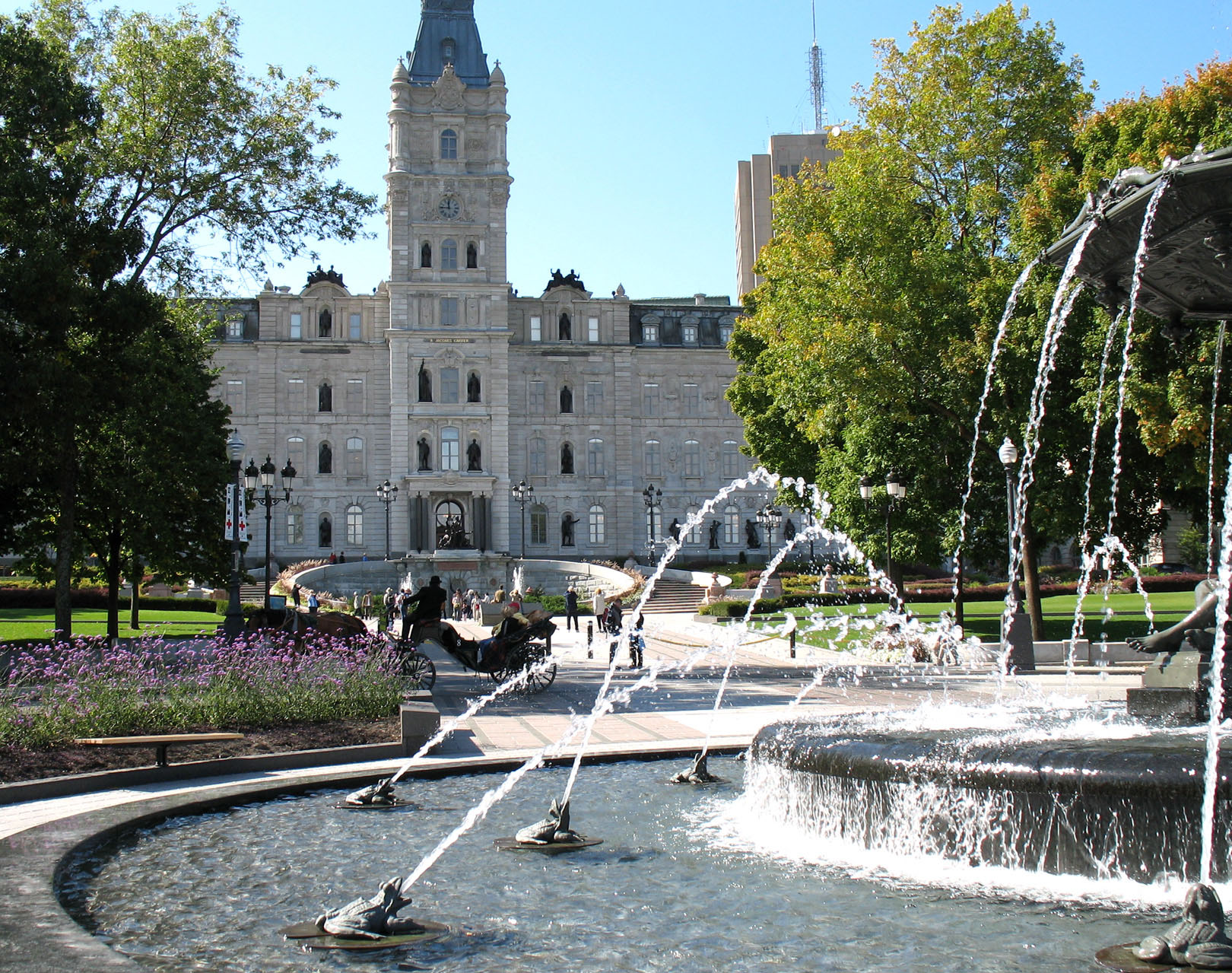 The Fontaine de Tourny, in front of the main entrance of the Parliament Building in Quebec City. The fountain, which was inaugurated on 3 July 2007, was crafted by French sculptor Mathurin Moreau during the second half of the 19th century. It was formerly installed in Bordeaux (France).